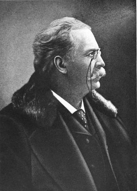 Samuel Augustus Fuller, Cleveland industrialist who founded the Bourne-Fuller Company.